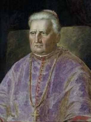 Florian Kovacs (1754-1825) Bishop of Satu Mare 1821-1825